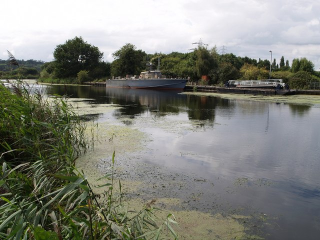 The small missile boat moored beside a wide stretch of the Exeter Canal is a former part of the Finnish Navy. What is it doing tied up beside Exeter sewage works? A: This is the Nuoli-class fast gunboat no. 11, restored by its owner, Servo Engineering Ltd, Exeter.